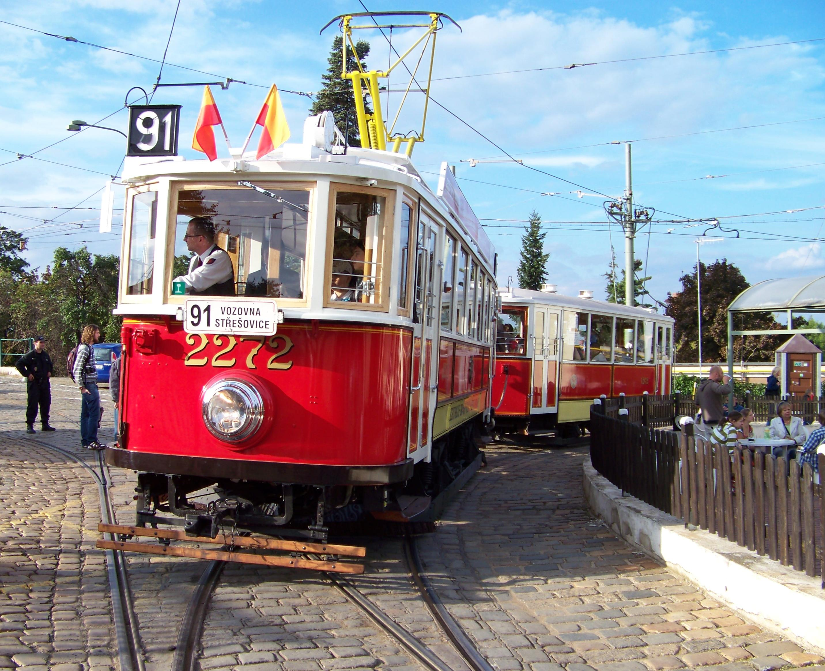 Prague-Střešovice, the Czech Republic. Heritage tram line in the tram depot.